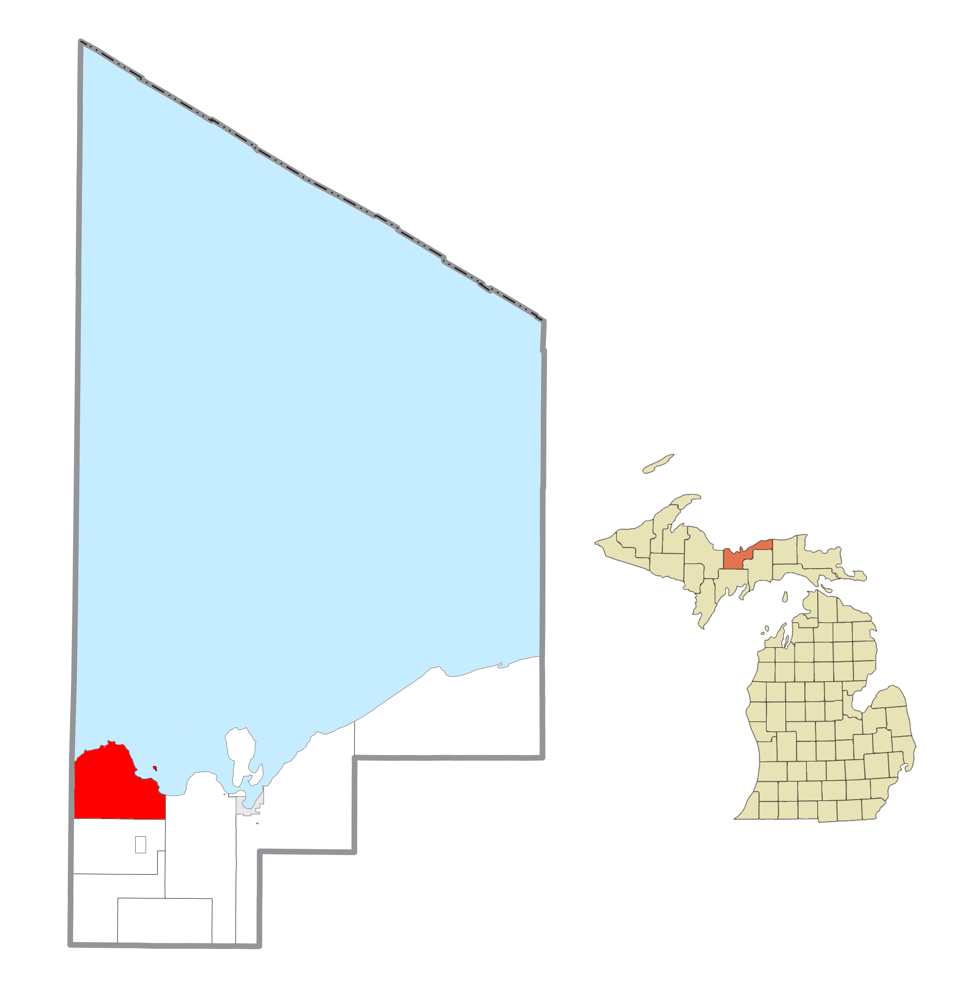 Onota Township, MI